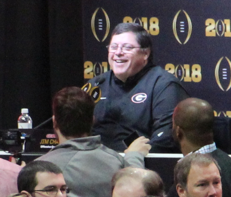 Jim Chaney at media day, Jan 2018